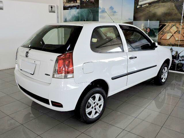 Fiat Palio Economy 1.0 Fire flex 3-door 2016